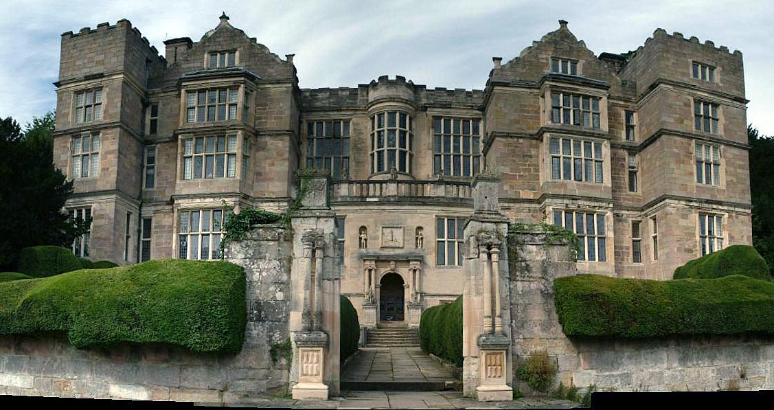 This is a montage of six photos stitched together showing Fountains Hall in August 2006.